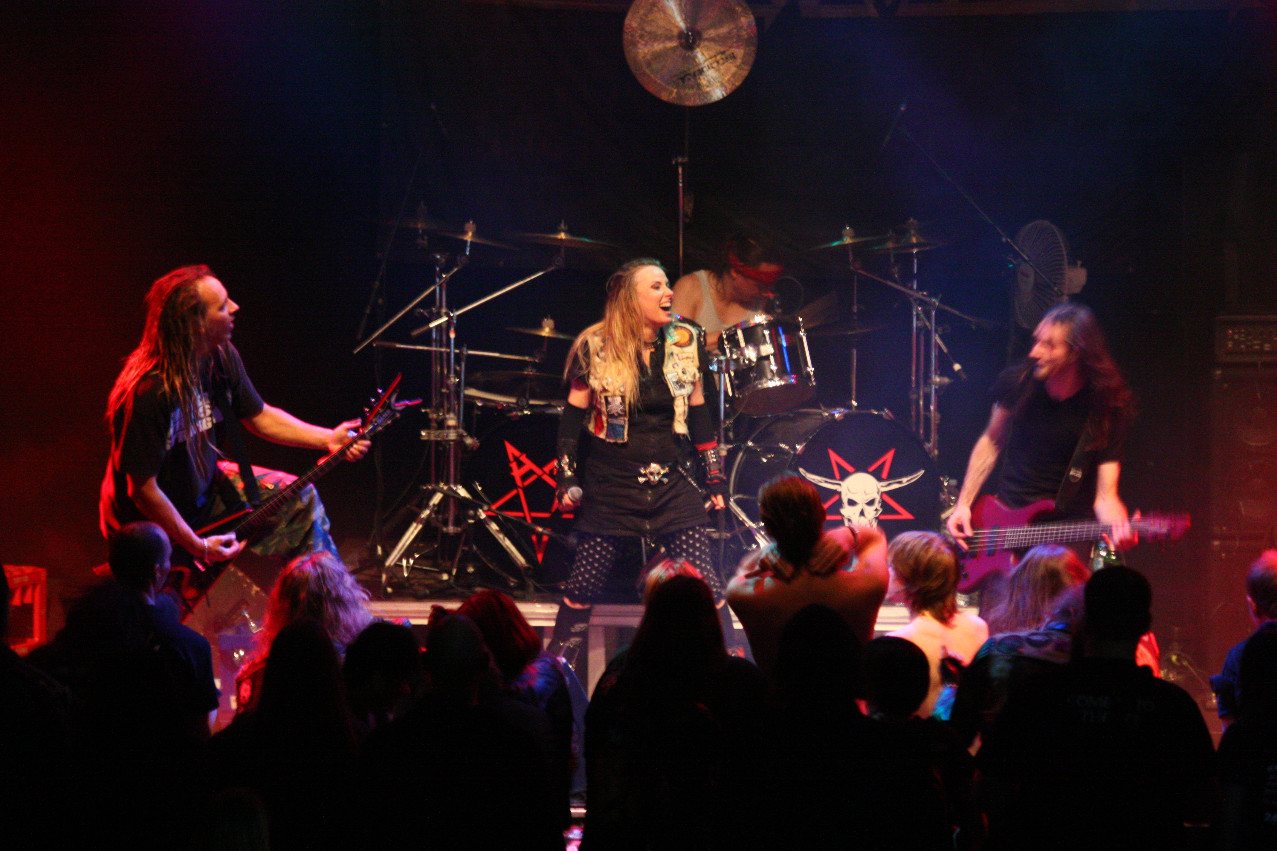 German thrash metal band Holy Moses live October 25, 2009